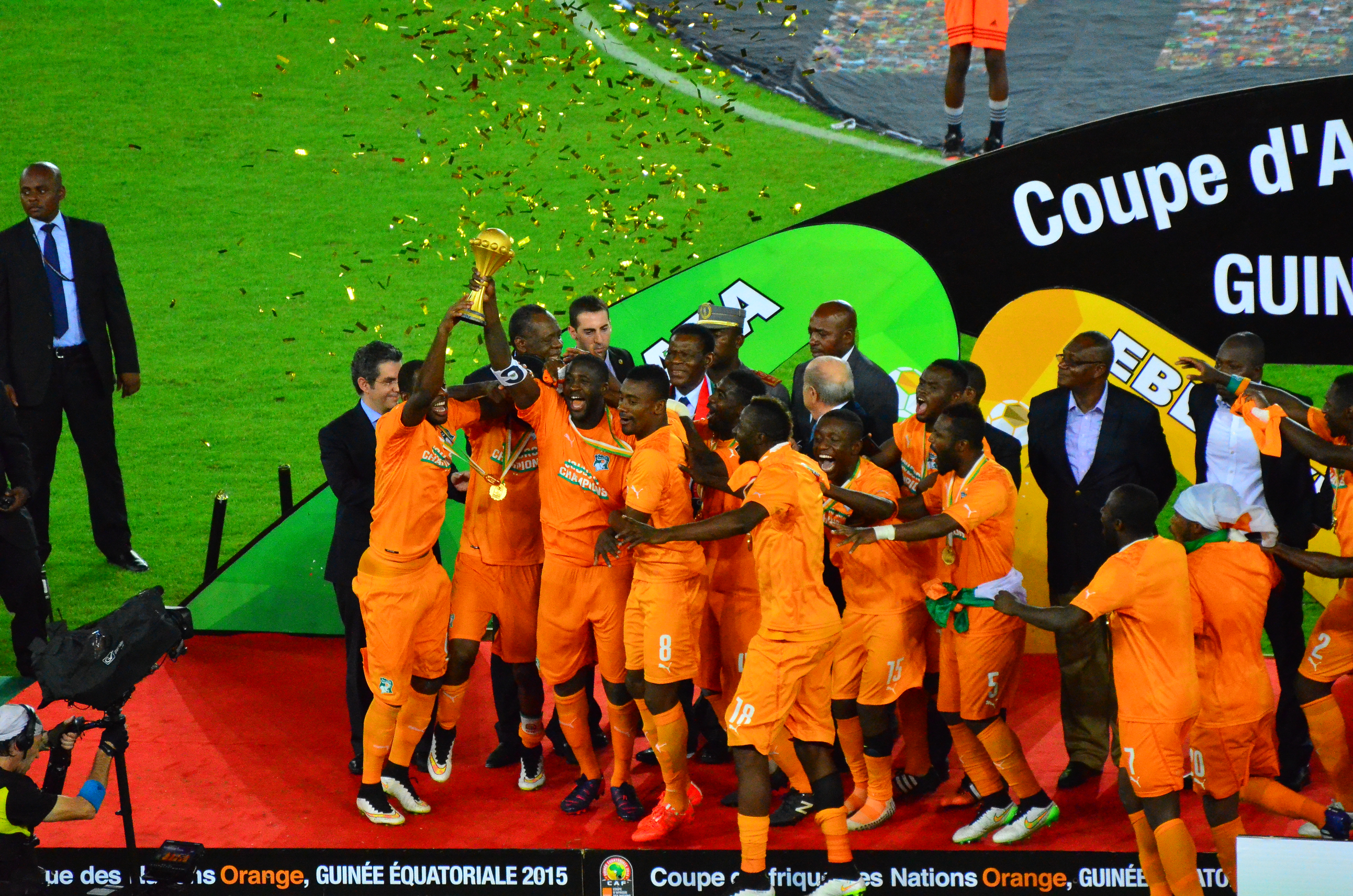 This is a picture of a soccer game (name of it is on file name).